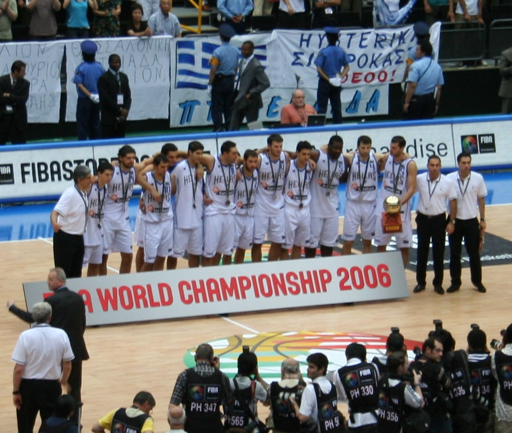 Basketball World Cup 2006 in Japan. After losing the final against Spain: The second placed team, Greece, who eliminated the US team